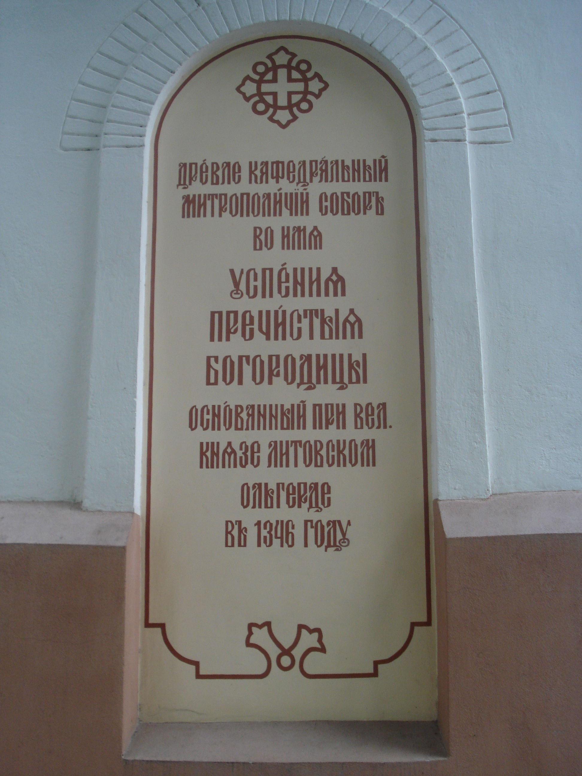 Orthodox Cathedral of the Dormition of the Theotokos in Vilnius. Memorial board